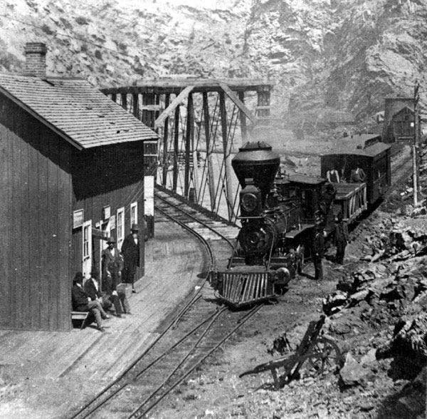 Narrow Gauge Colorado Central Railroad in Clear Creek Canyon. Forks Creek is where Clear Creek splits, one arm to Black Hawk and Central City, the other arm to Georgetown and Silver Plume. The train in this picture waits on the Blackhawk/Central City line, before heading towards Golden, Colorado.